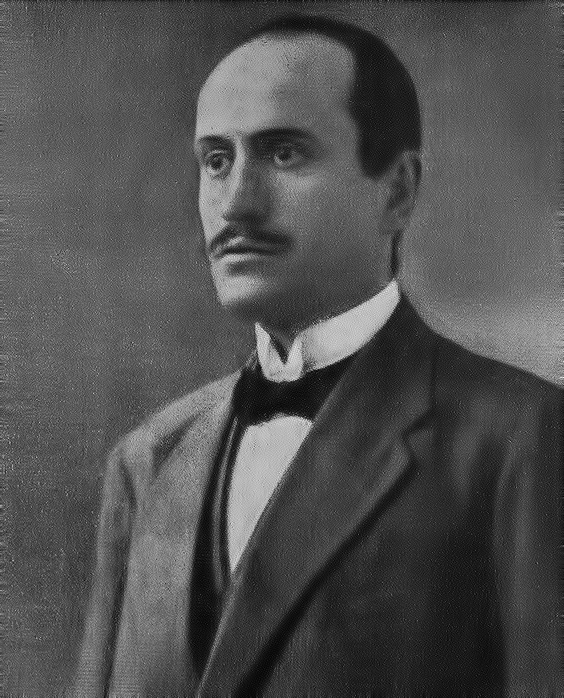 Benito Mussolini